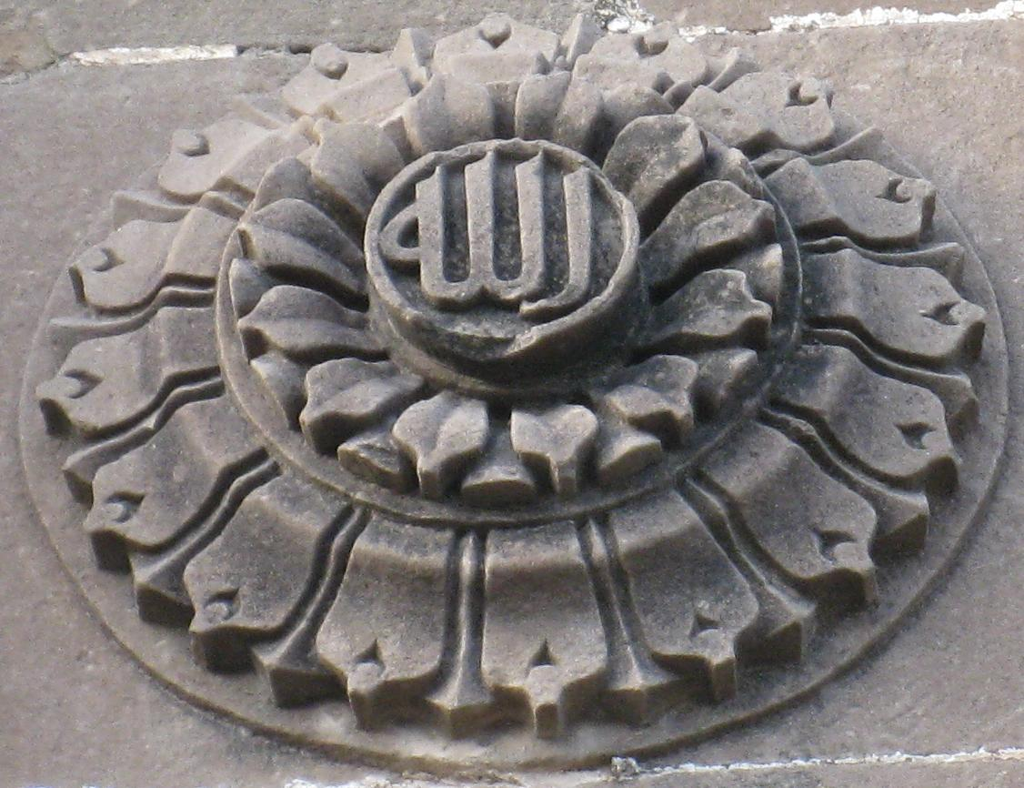 Allah in stone in Rohtas Fort, District Jhelum, Punjab, Pakistan